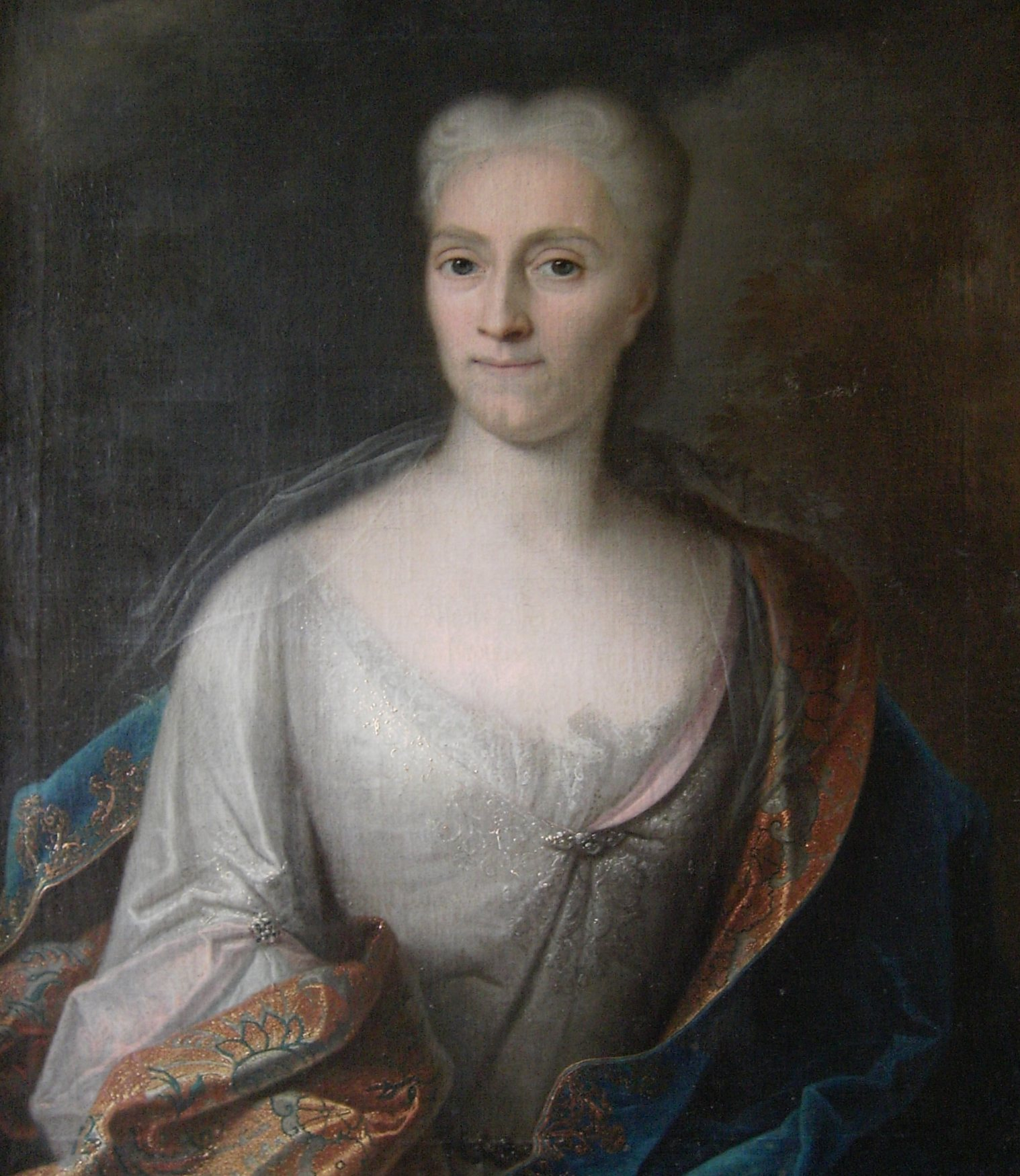 Portrait of Anna Constantia von Brockdorff (1680-1765), Countess of Cosel,, mistress of August I of Poland. Late in her life and exile.